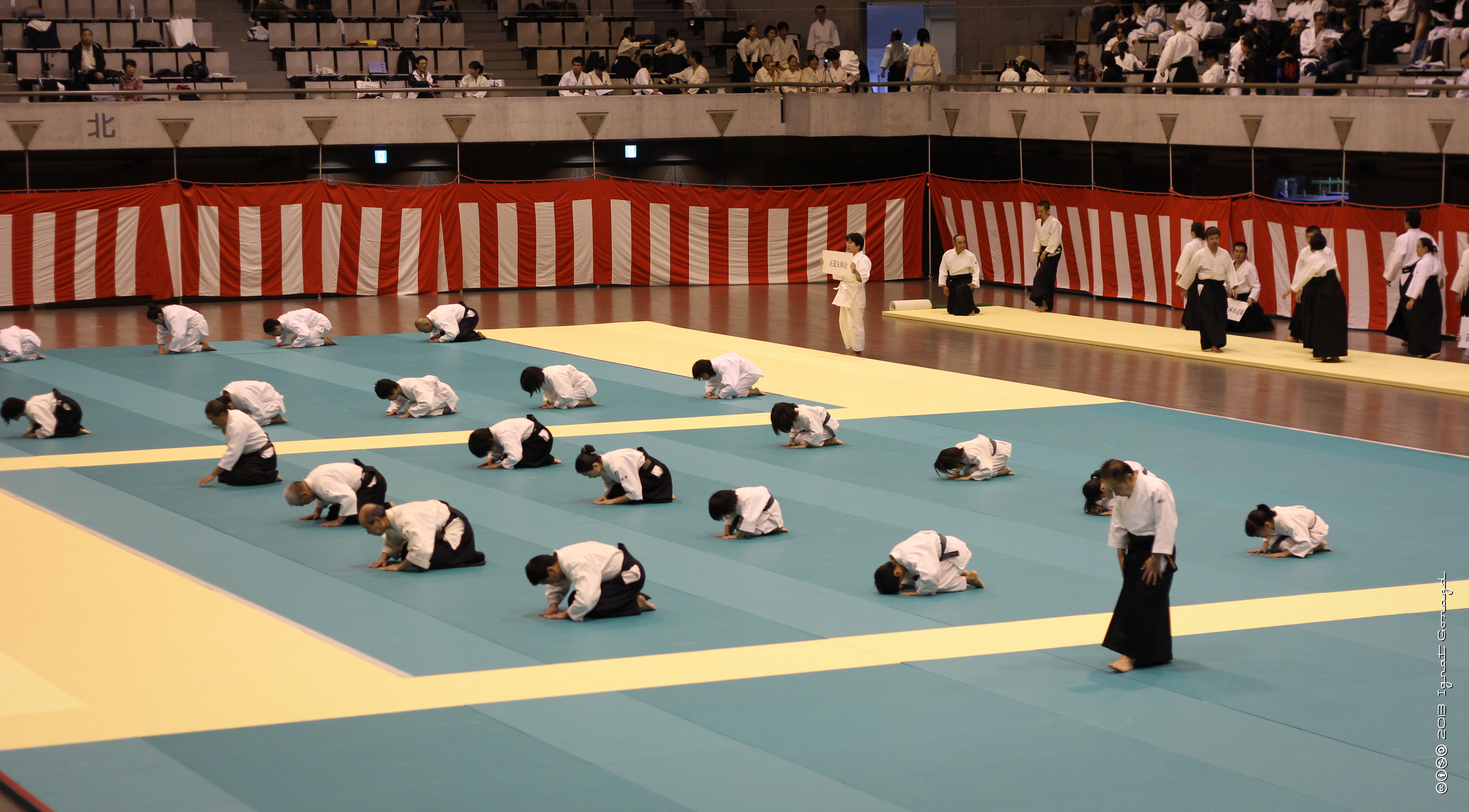 Demonstration starts